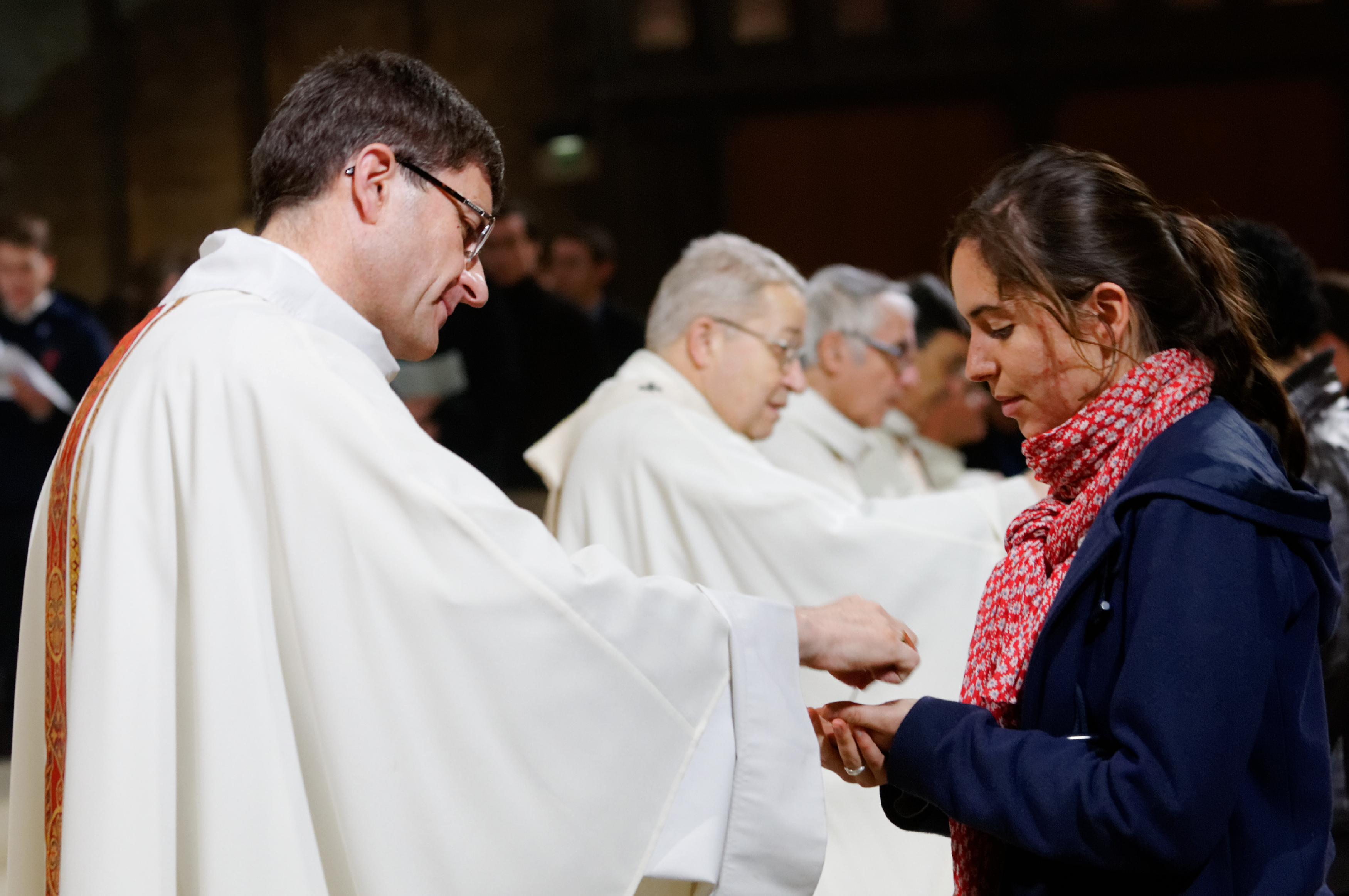 Communion received in the hand. Île-de-France students' mass in Cathedral Notre Dame de Paris celebrated by Mgr André Vingt-Trois.